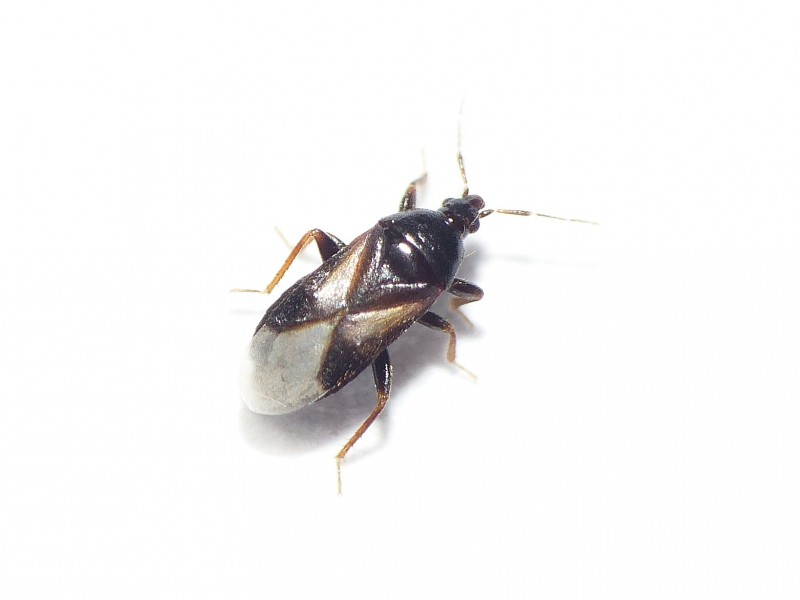 Xylocoris cursitans (Anthocoridae), Wageningen - Regentesselaan, the Netherlands